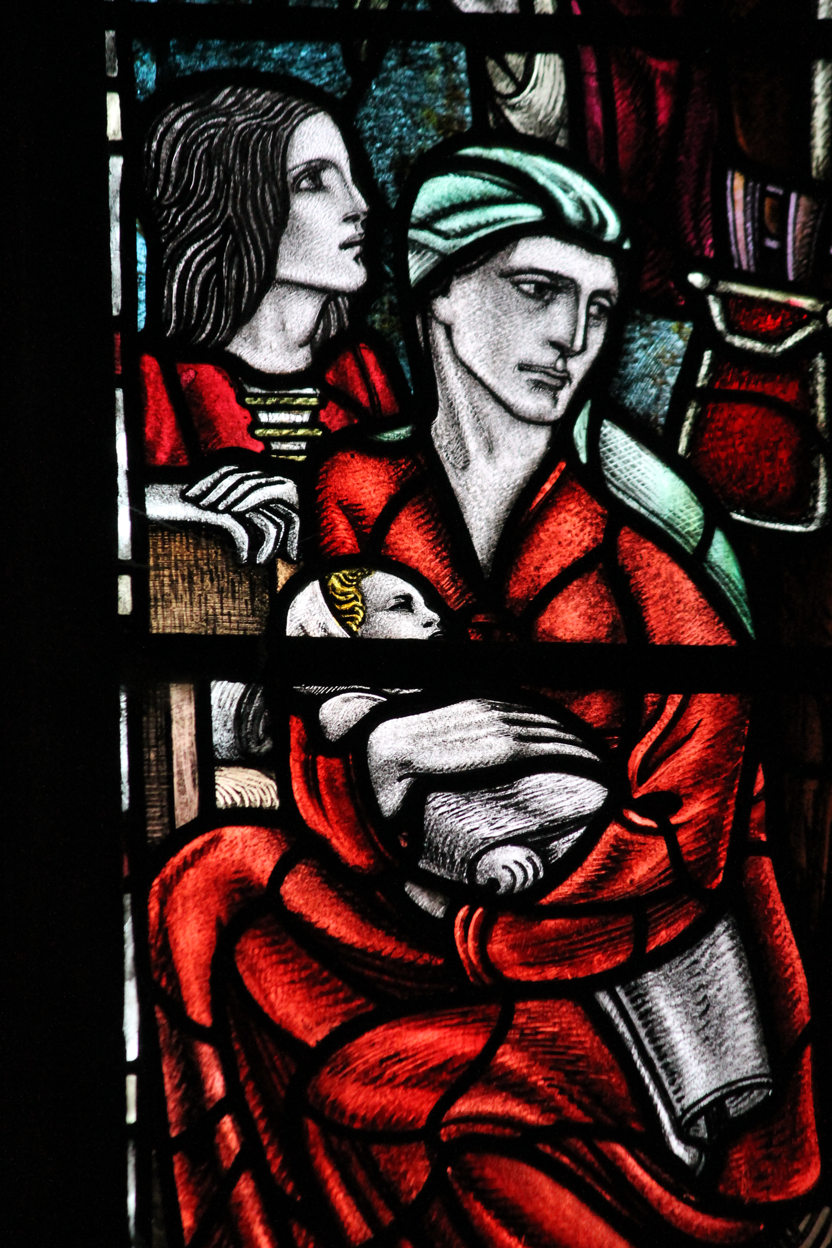 By Douglas Strachan, 1931-33 Pic by Jenny.